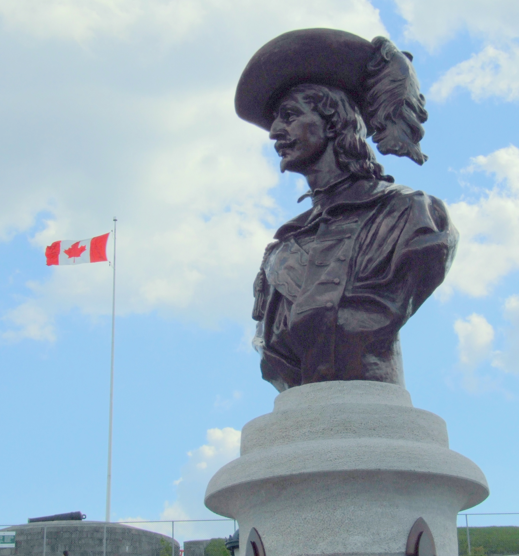 Bust representing Pierre Dugua de Mons, Québec, Quebec, Canada